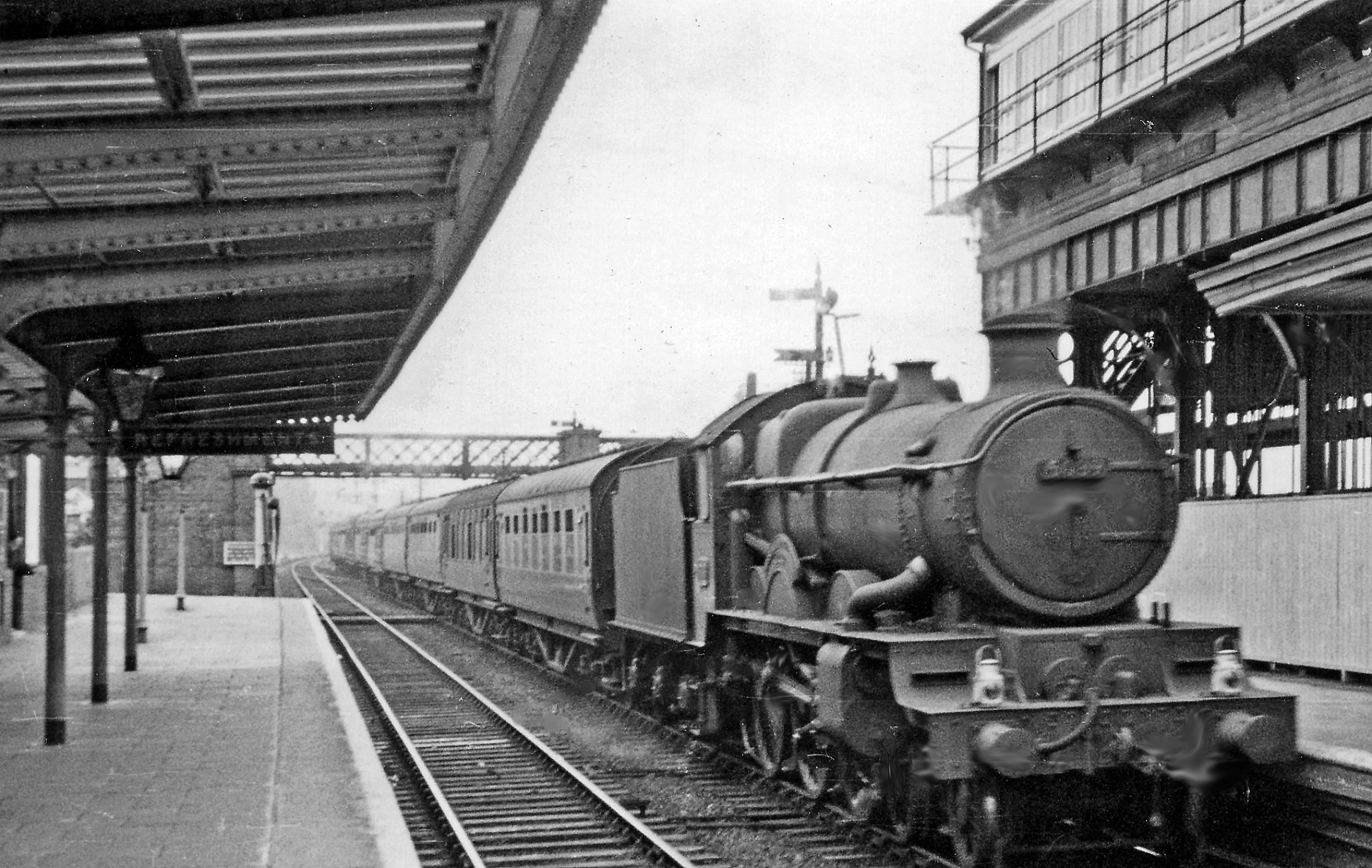 Liverpool - Cardiff express passing Leominster. View northward, towards Shrewsbury and the North. THe 15.00 Liverpool Lime Street - Cardiff express has come via Crewe and Shrewsbury, the WR locomotive took over to continue to Cardiff, via Hereford and Newport. Ex-GW Collett 'Castle' 4-6-0 No. 5089 'Westminster Abbey' was built 10/39 from the remains of 'Star' No. 4069 and lasted until 11/64. Branch trains to Kington and Presteigne are still running - for a few more months - from the bay on the Up side, and from one other end of the Down side to Bromyard and Worcester.